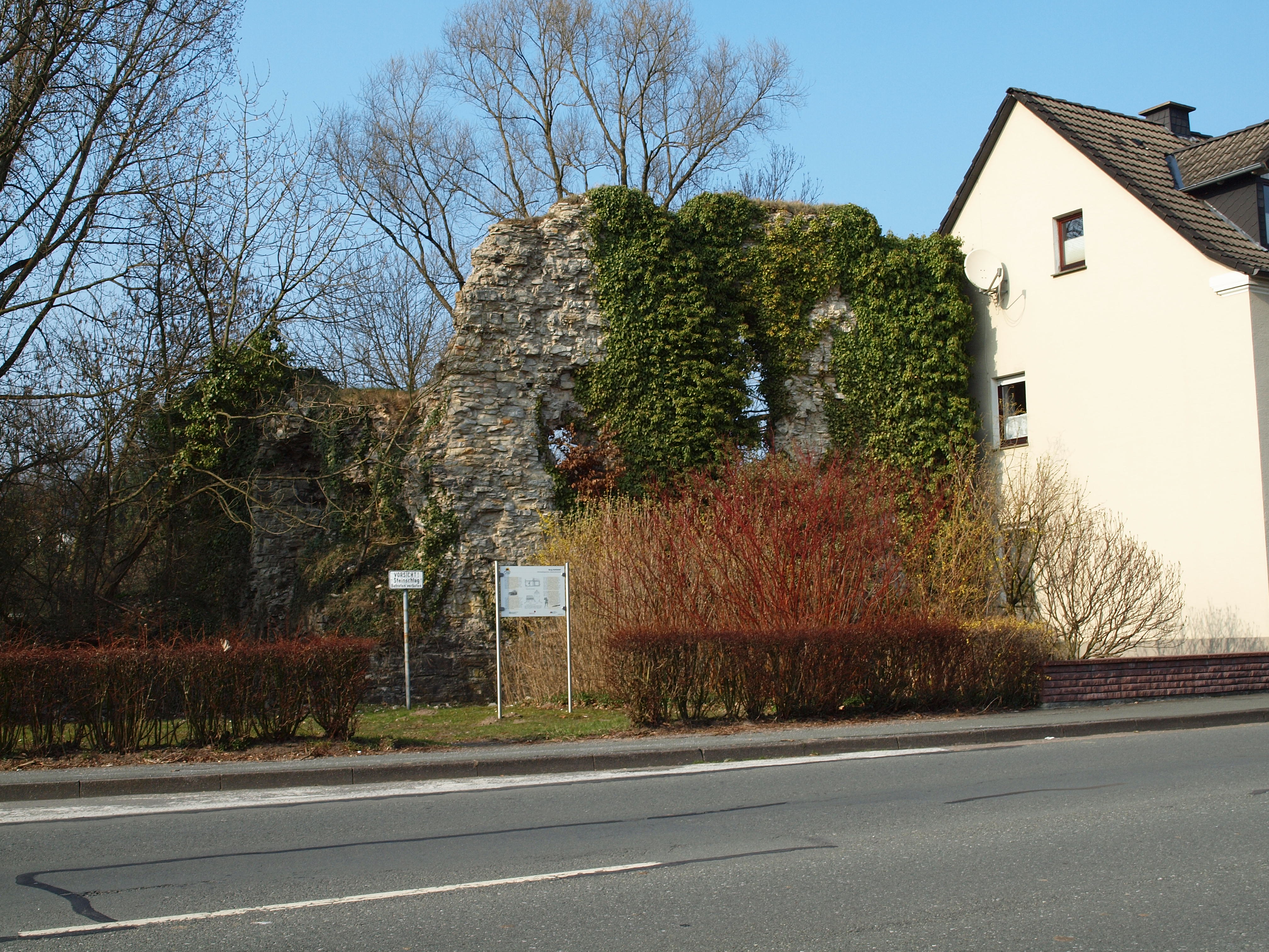 Castle ruins Kohlstädt